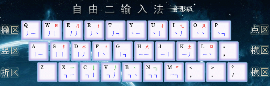 This is a keyboard image of Libre Erbi input method(自由二笔输入法), an input method for Chinese character. The input mathod's author is Dulaiduwan（独来独往）,who is the adminstrator of web and the creator of libre erbi. And the image is a screenshot made by a free software.